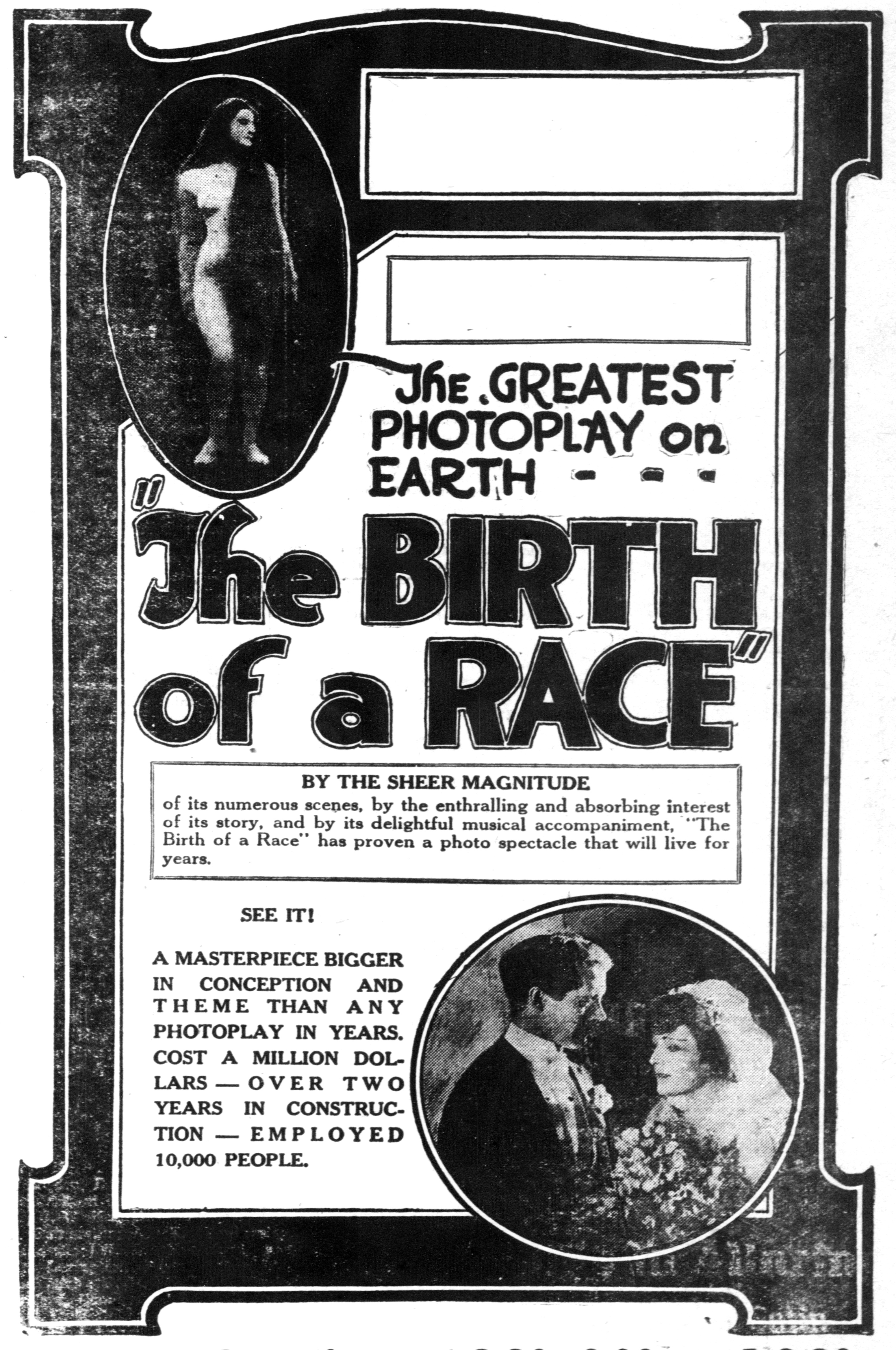 The Birth of a Race is a 1918 American silent drama film directed by John W. Noble. This is a newspaper advert for what should be the film, published in 1922. Doris Doscher portrayed Eve.